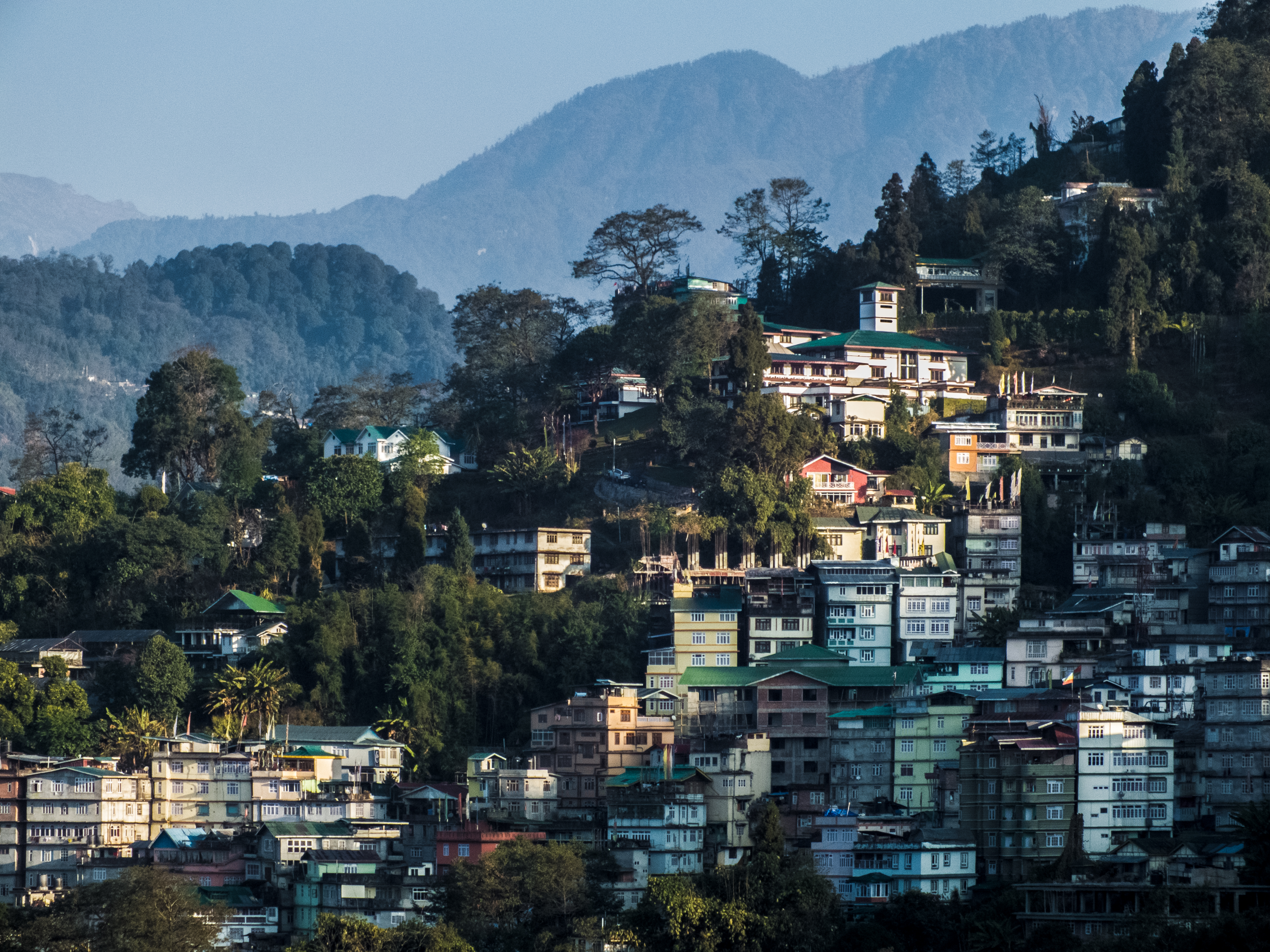 Gangtok city in the morning as seen from Tibet Road.